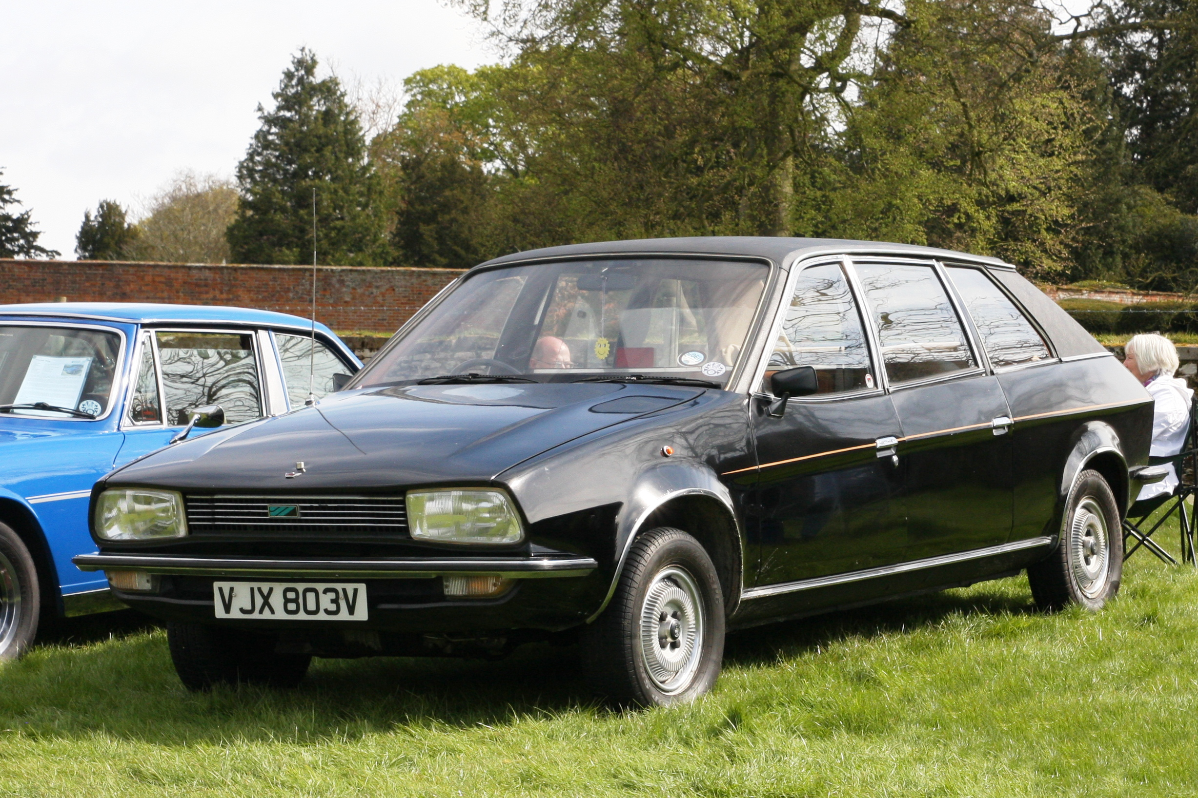 extended Princess 2200 with pre-facelift front, despite post-facelift first registration date